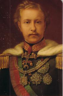 Portrait of Luís I of Portugal (1838-1889)